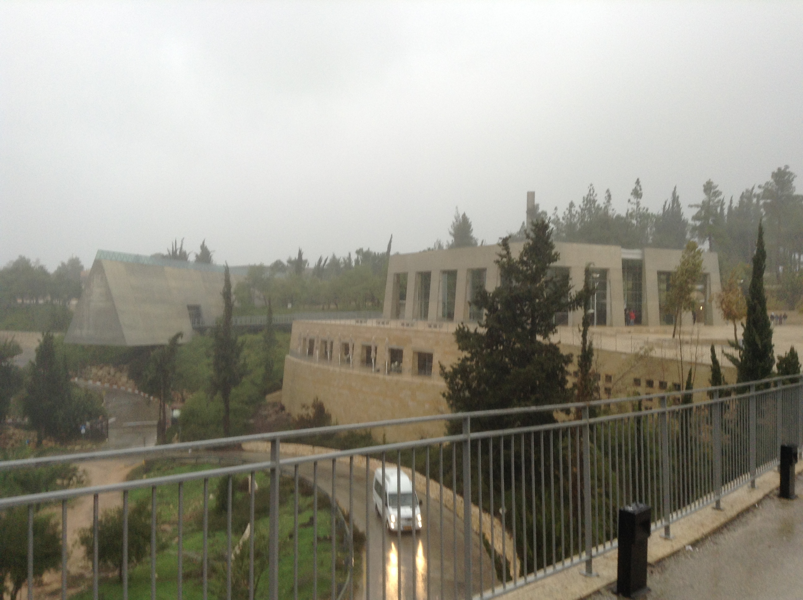 Yad Vashem